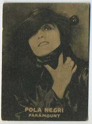 Actress Pola Negri on a Susini y Bock Ovalados cigarette card.